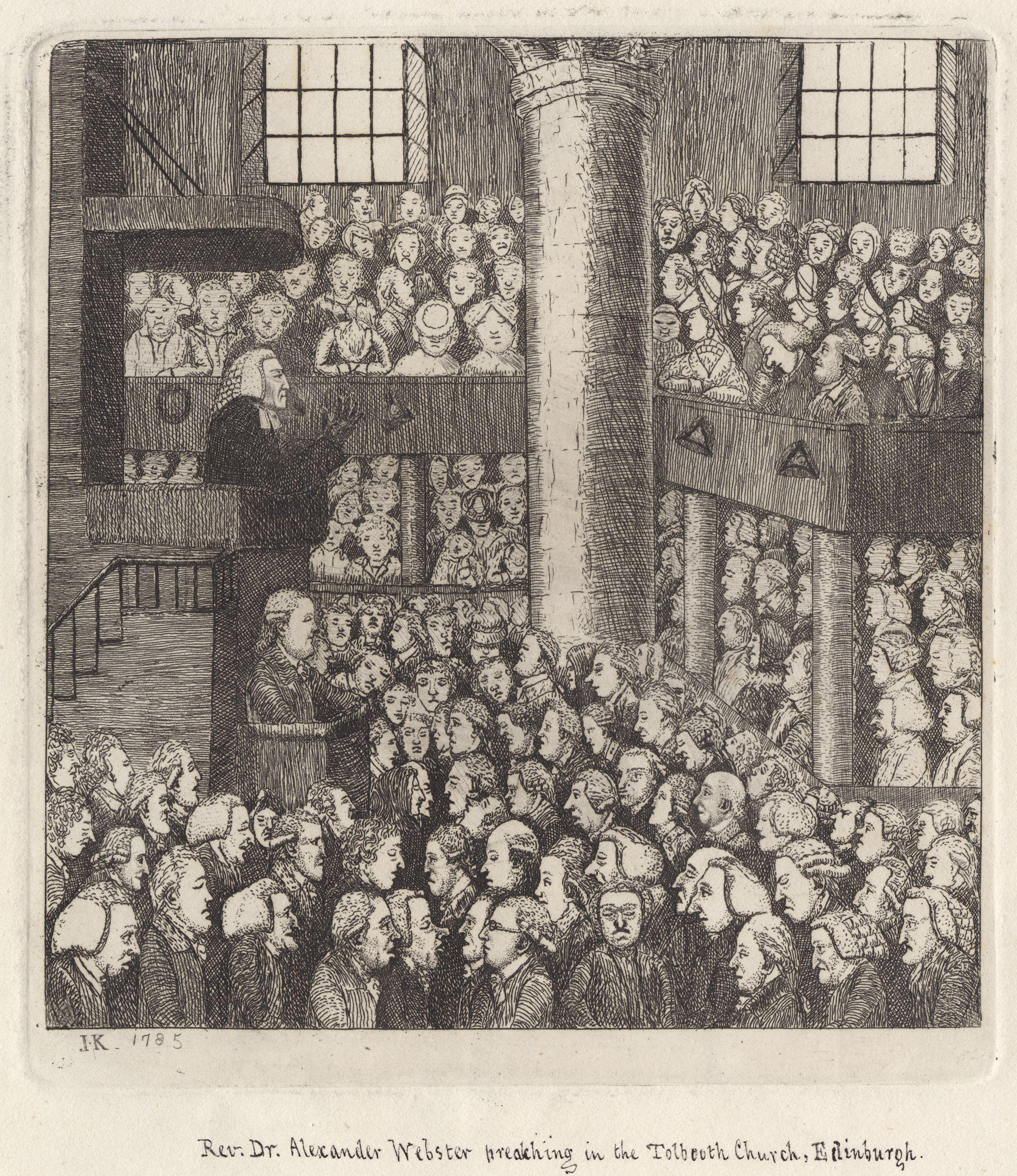 Alexander Webster, etching by John Kay (died 1826). All images in this batch have been confirmed as author died before 1939 according to the official death date listed by the NPG.